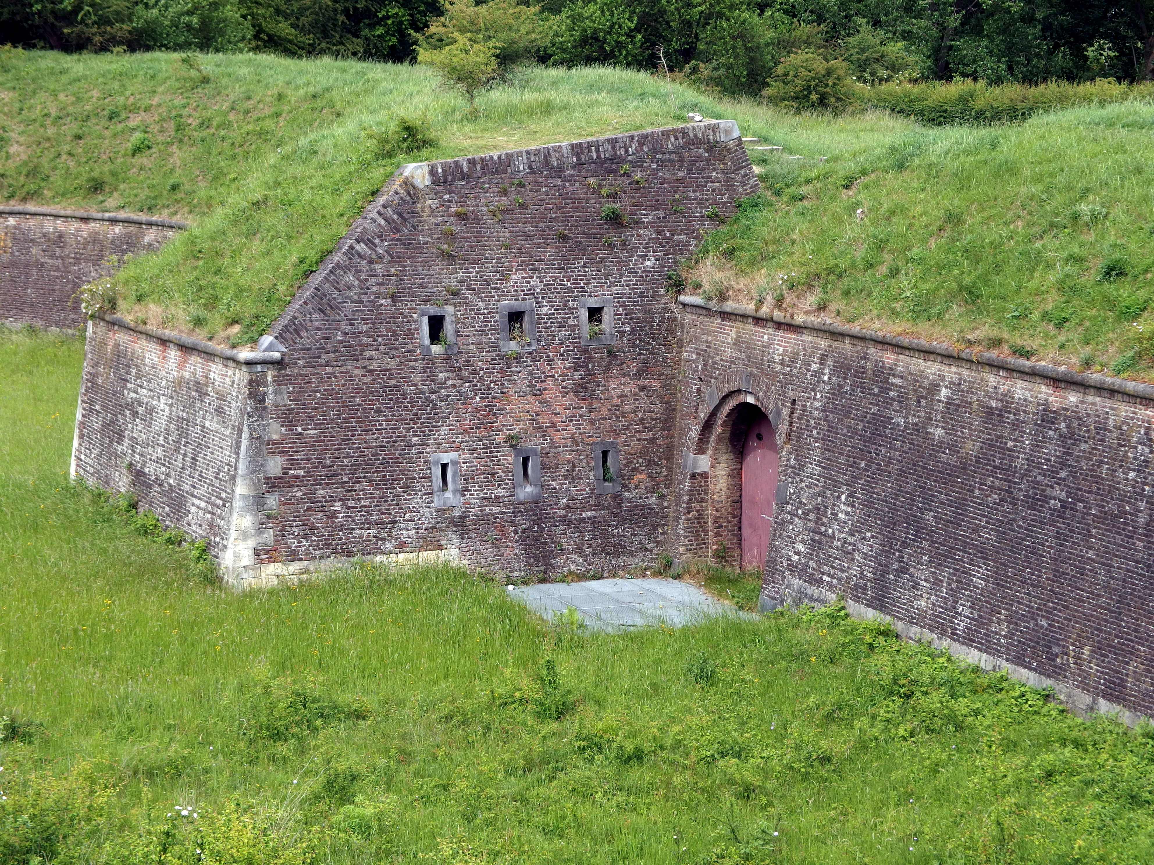 Maastricht, the Netherlands. Sortie C with drawbridge, between Bastion Erfprins and Stadhouder, one of four sally ports in the Linie van Dumoulin fortifications.